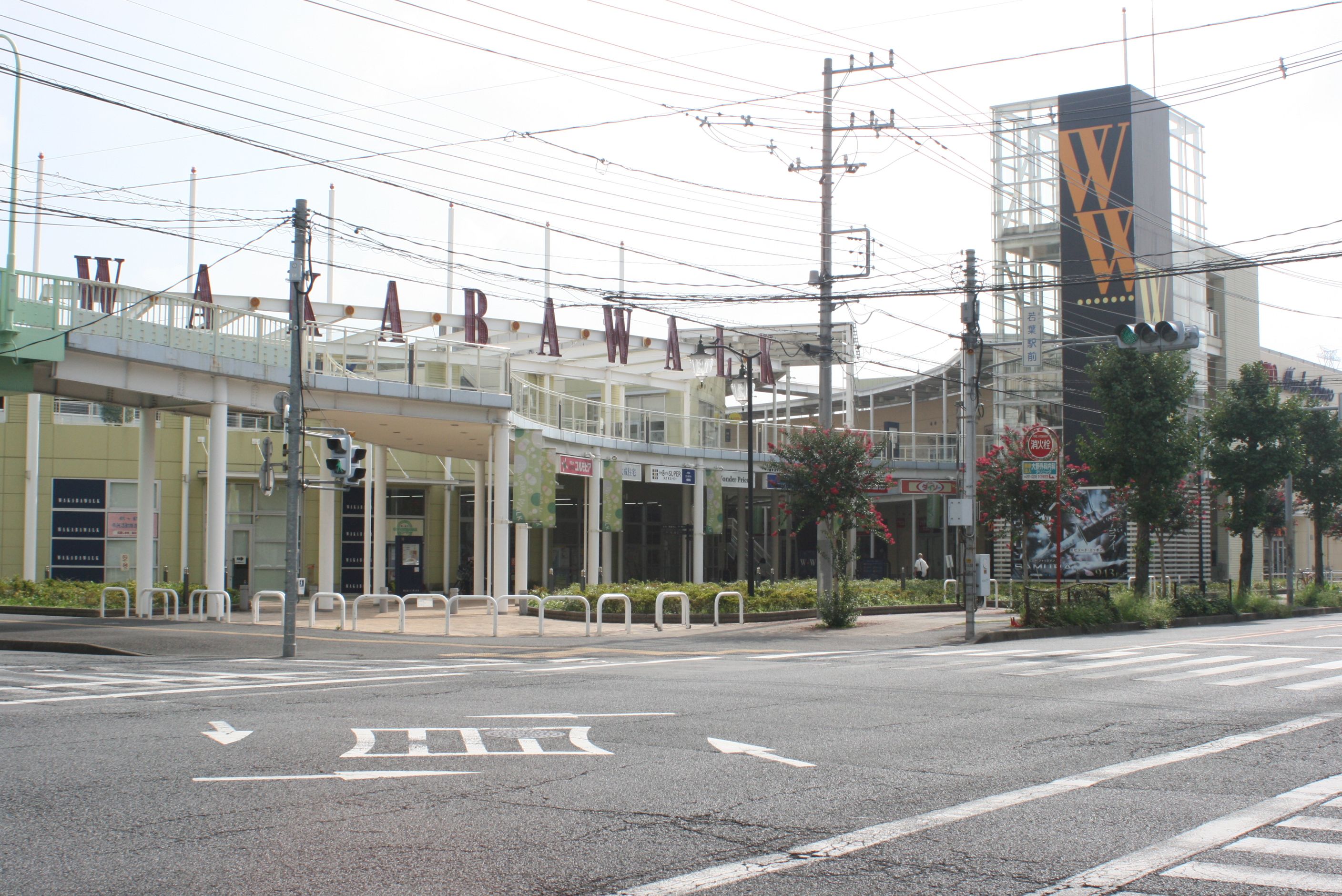 Wakaba Walk shopping mall in Tsurugashima City, Saitama Prefecture, Japan